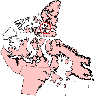 Base image created by Keith Edkins as GFDL, modified by Tim Vasquez.